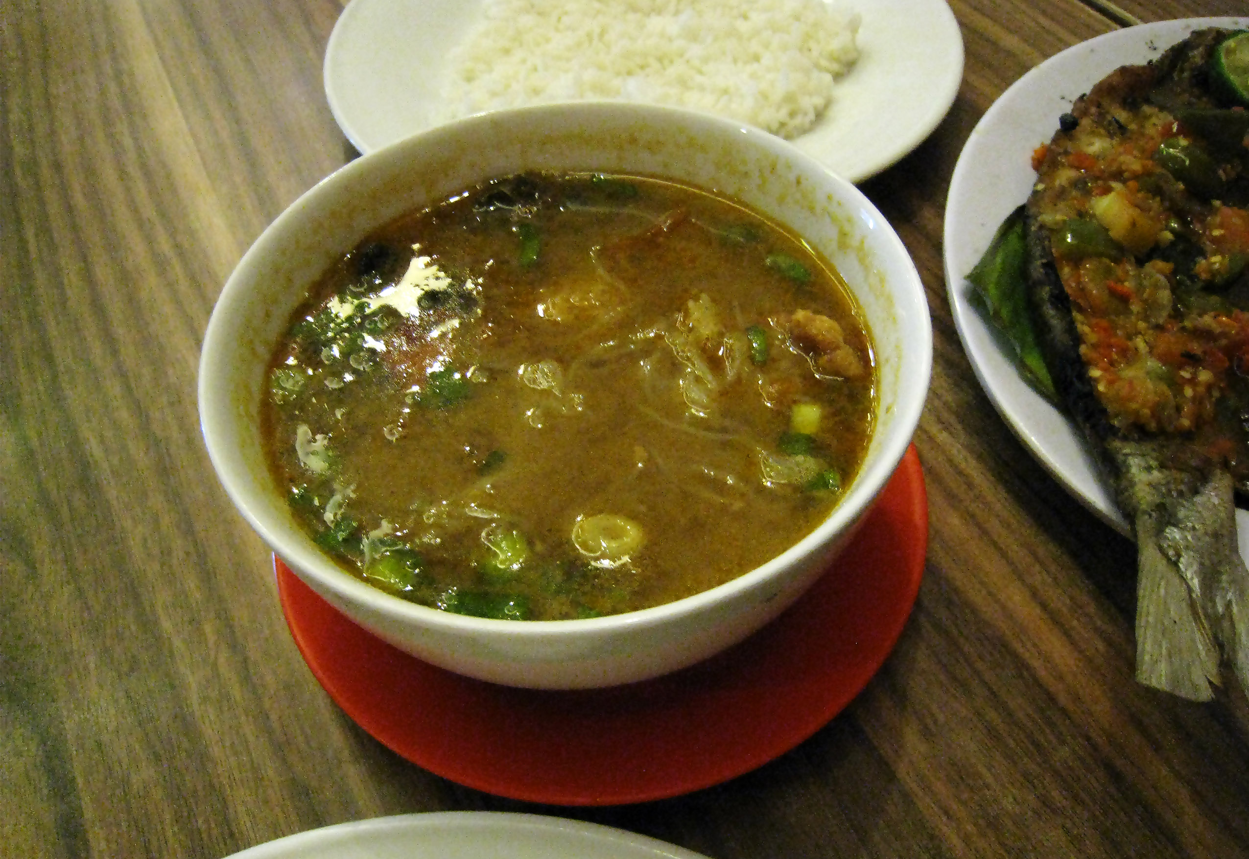 Sop Saudara, a Makassar-Bugis cuisine spicy beef soup, sometimes added with offals. A specialty of Makassar city, Indonesia.